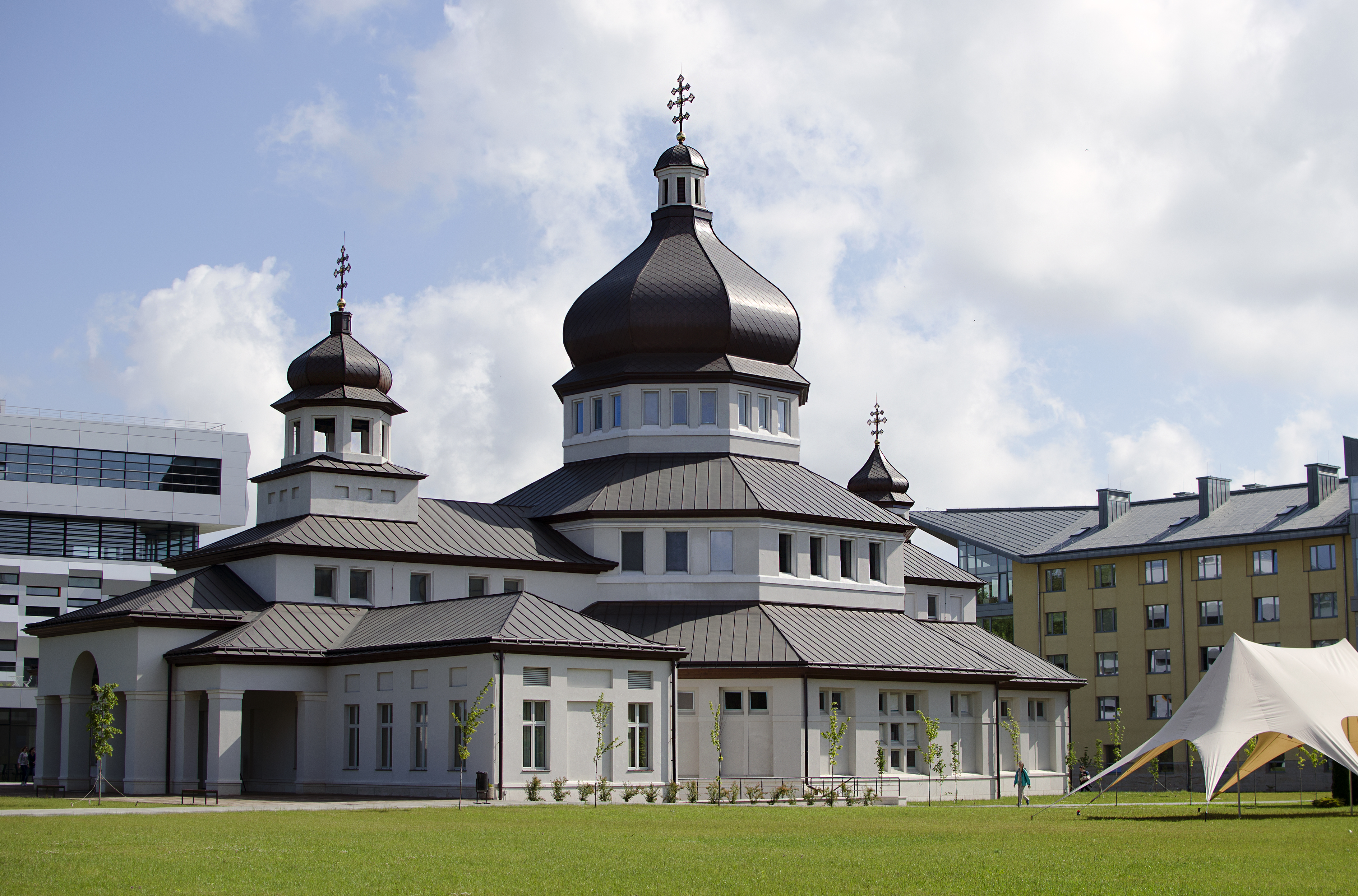 Church of St. Sophia (Lviv). Consecrated in 2016